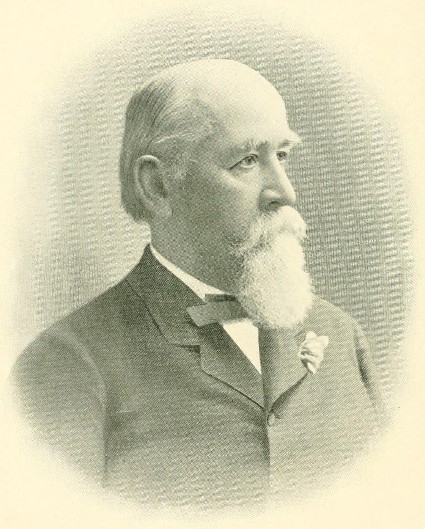 Portrait of Charles Eugene Flandrau.